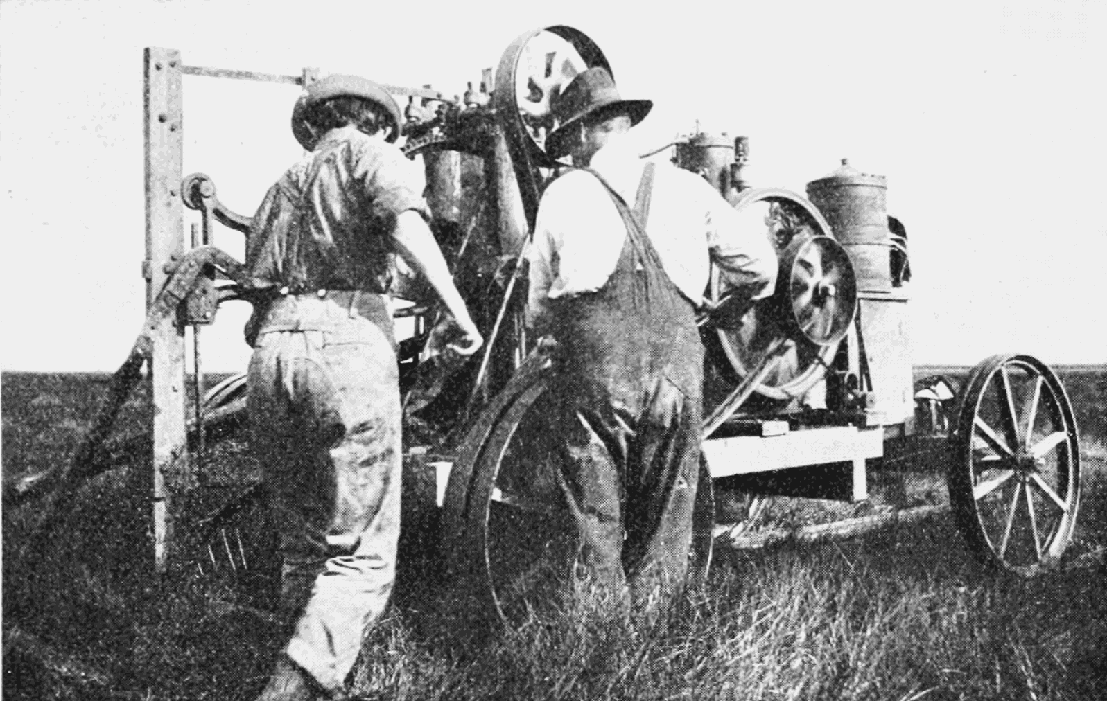 Mechanical ditch digging on the Newark Meadows 1904